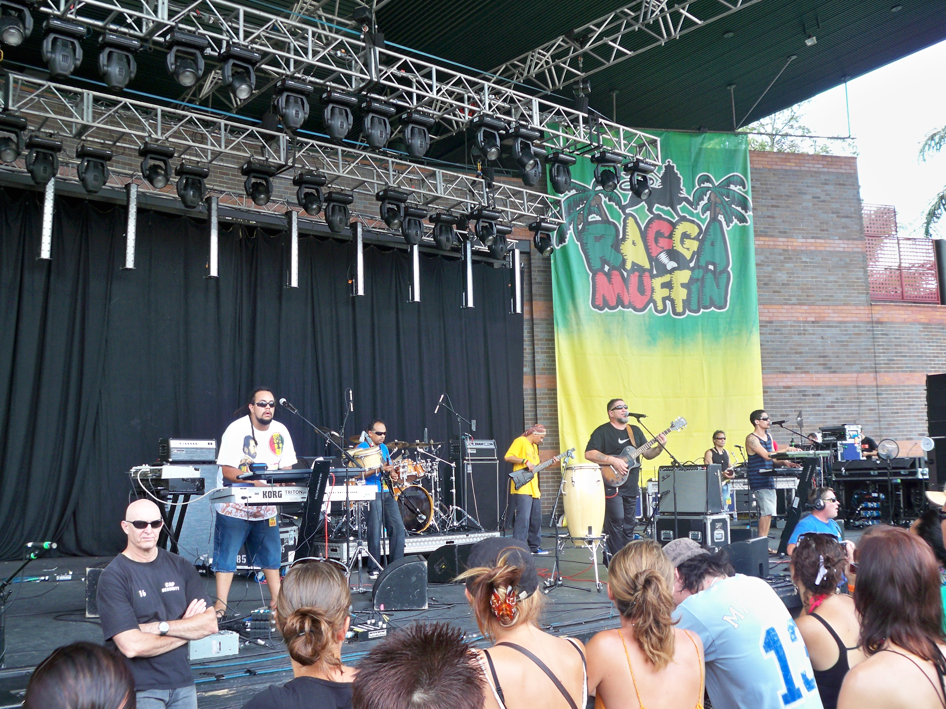 House of Shem performing live at Raggamuffin 2010 in Brisbane Australia.